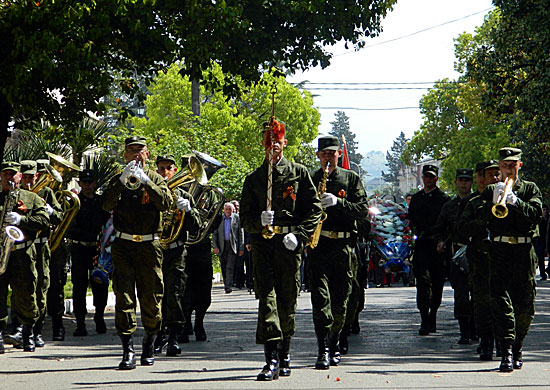 Музыкальное сопровождение военного парада обеспечит сводный оркестр музыкантов российской военной базы и Министерства обороны Абхазии.